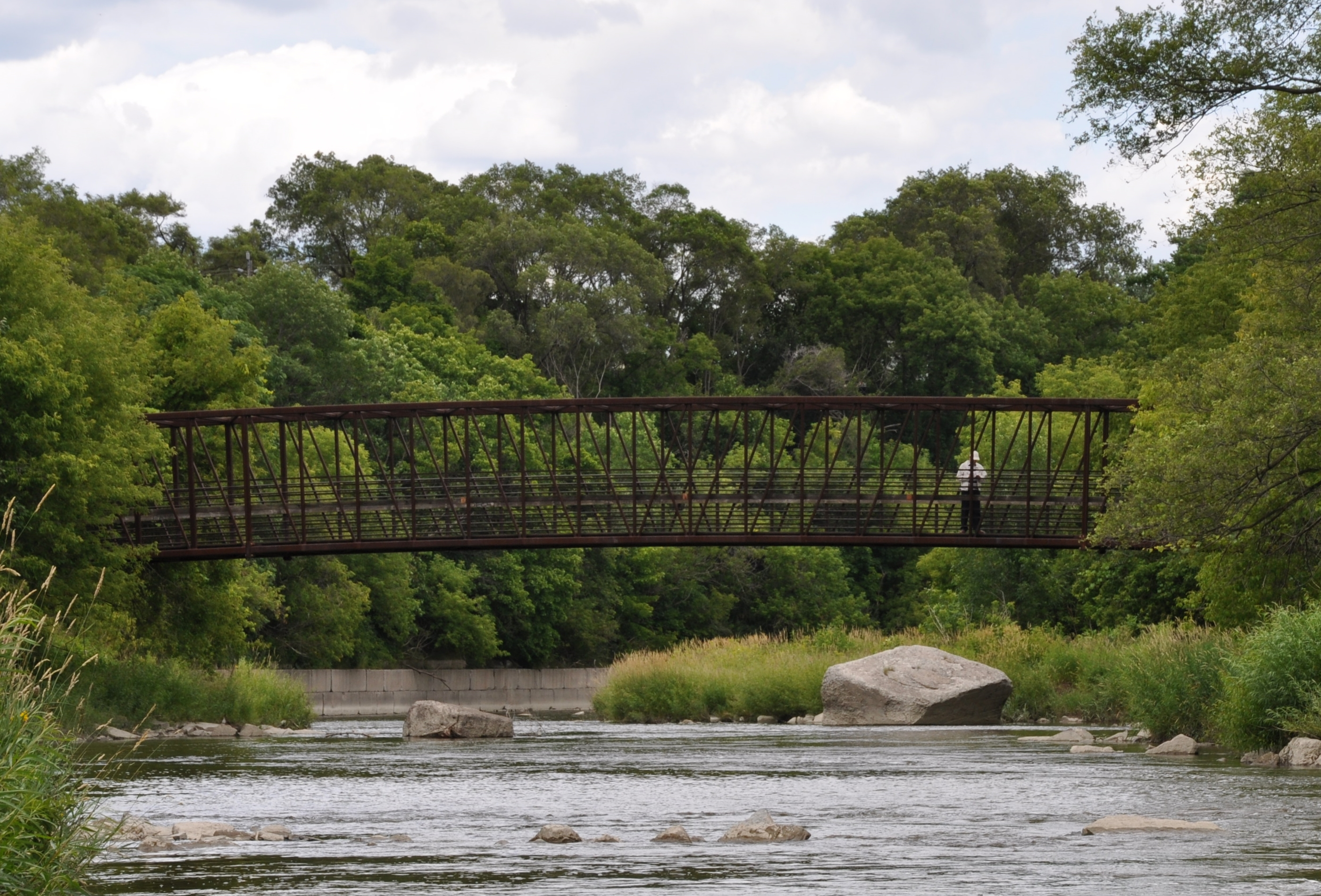 Footbridge over Humber River, Toronto, south of Lawrence Ave., as seen from the north. Left side of photo is east bank (Lions Park), right side is west bank (Raymore Park).